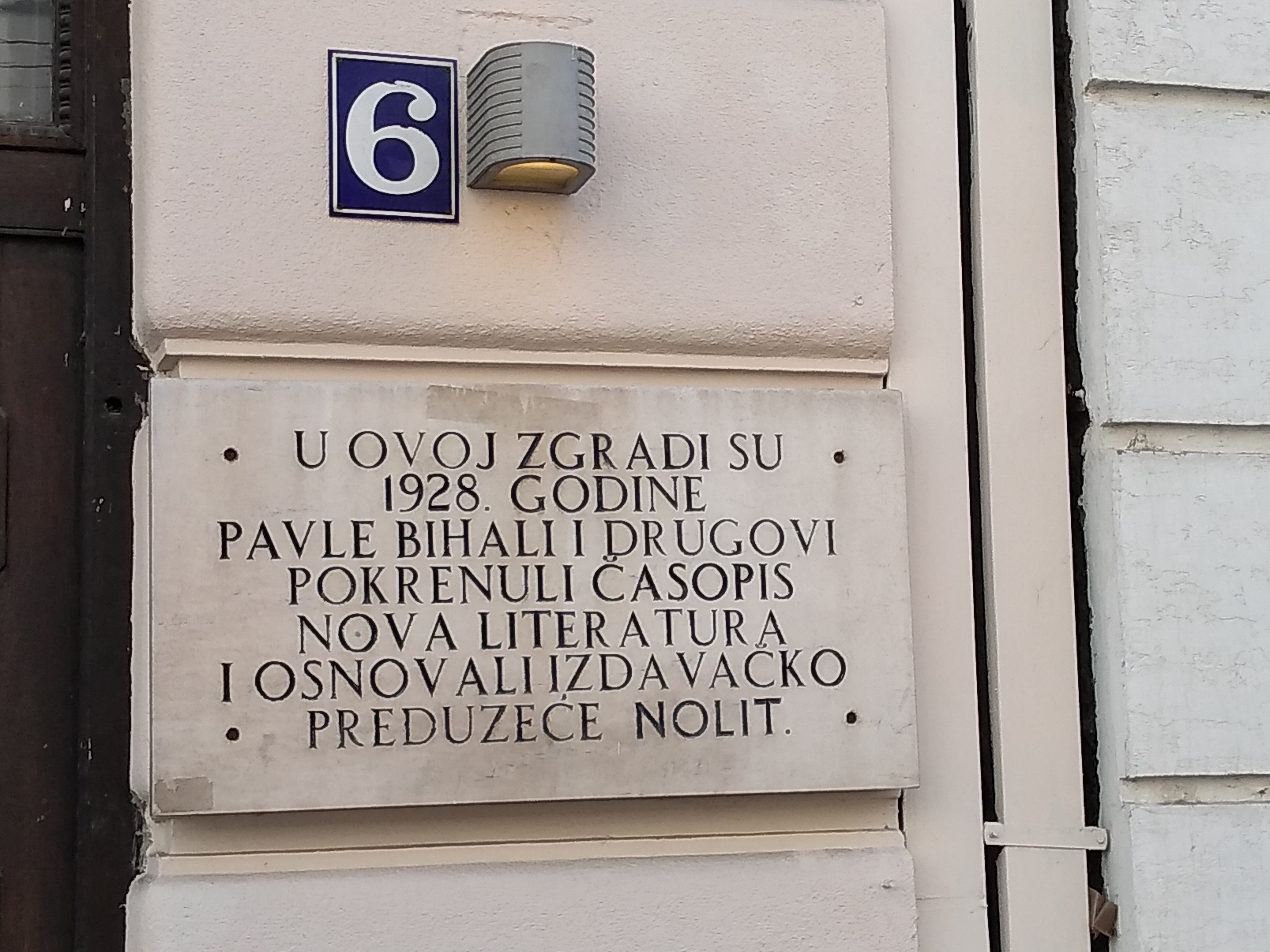 Dobracina street number 6 in Belgrade, Serbia Srpski (latinica): Dobračina ulica broj 6, Beograd, Srbija